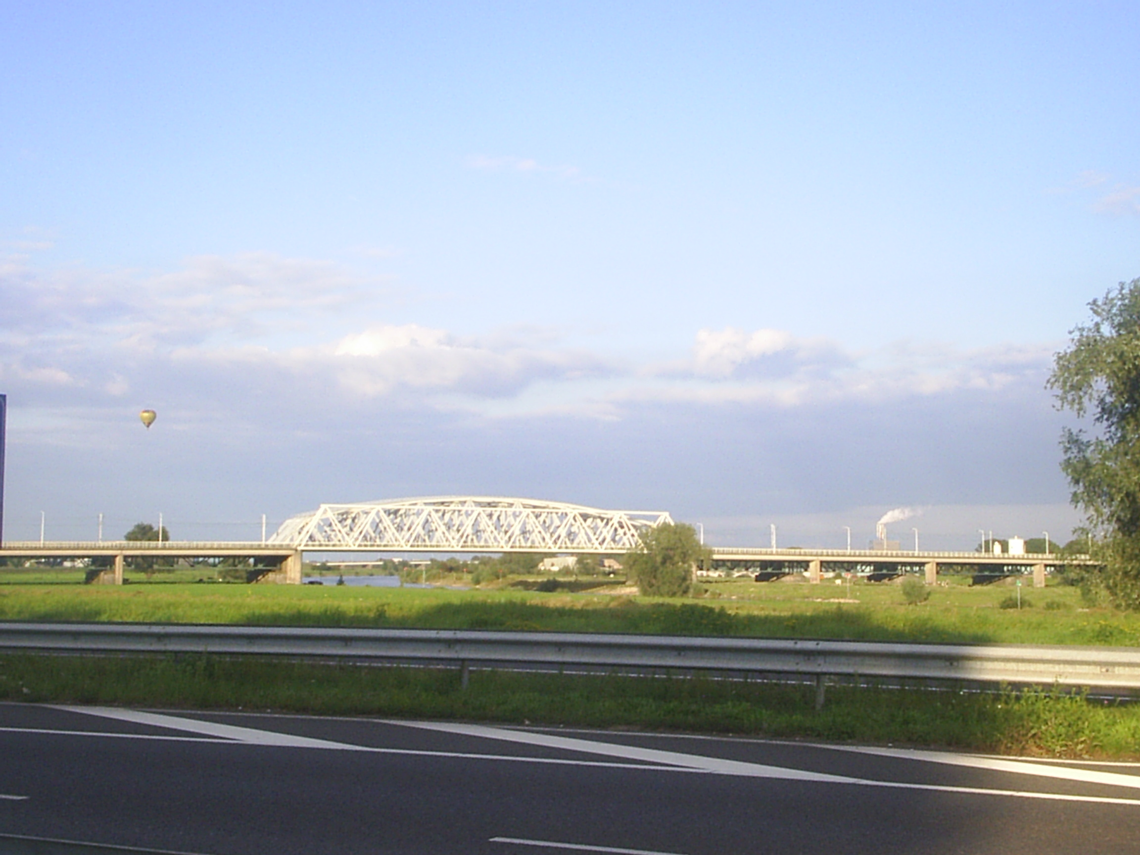 Bridge of Westervoort, the Netherlands